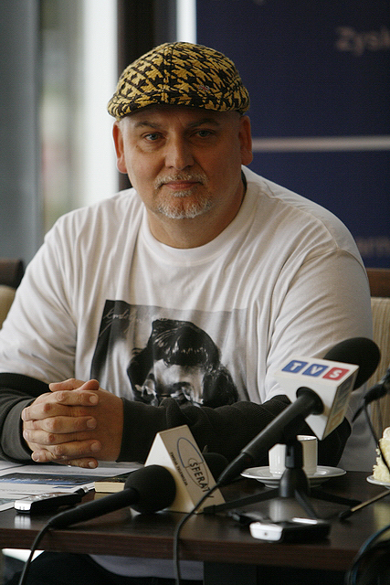 30 Rawa Blues Festival Press Conference